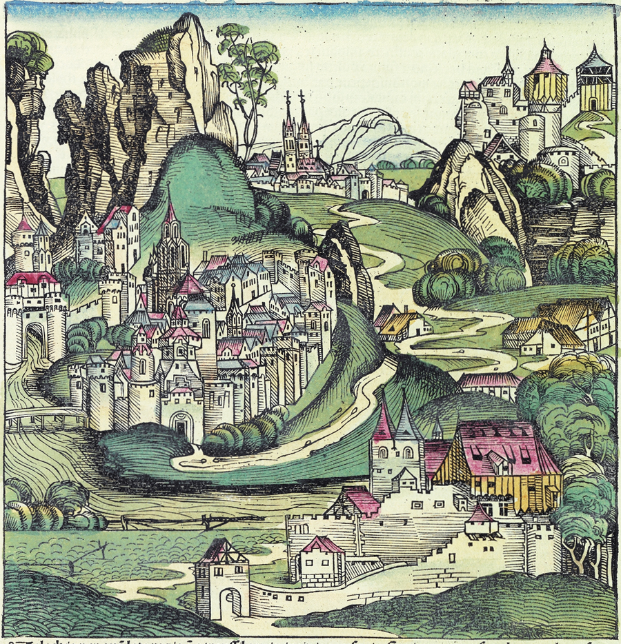 Illustration from the Nuremberg Chronicle (Latin copy in Sao Paulo)